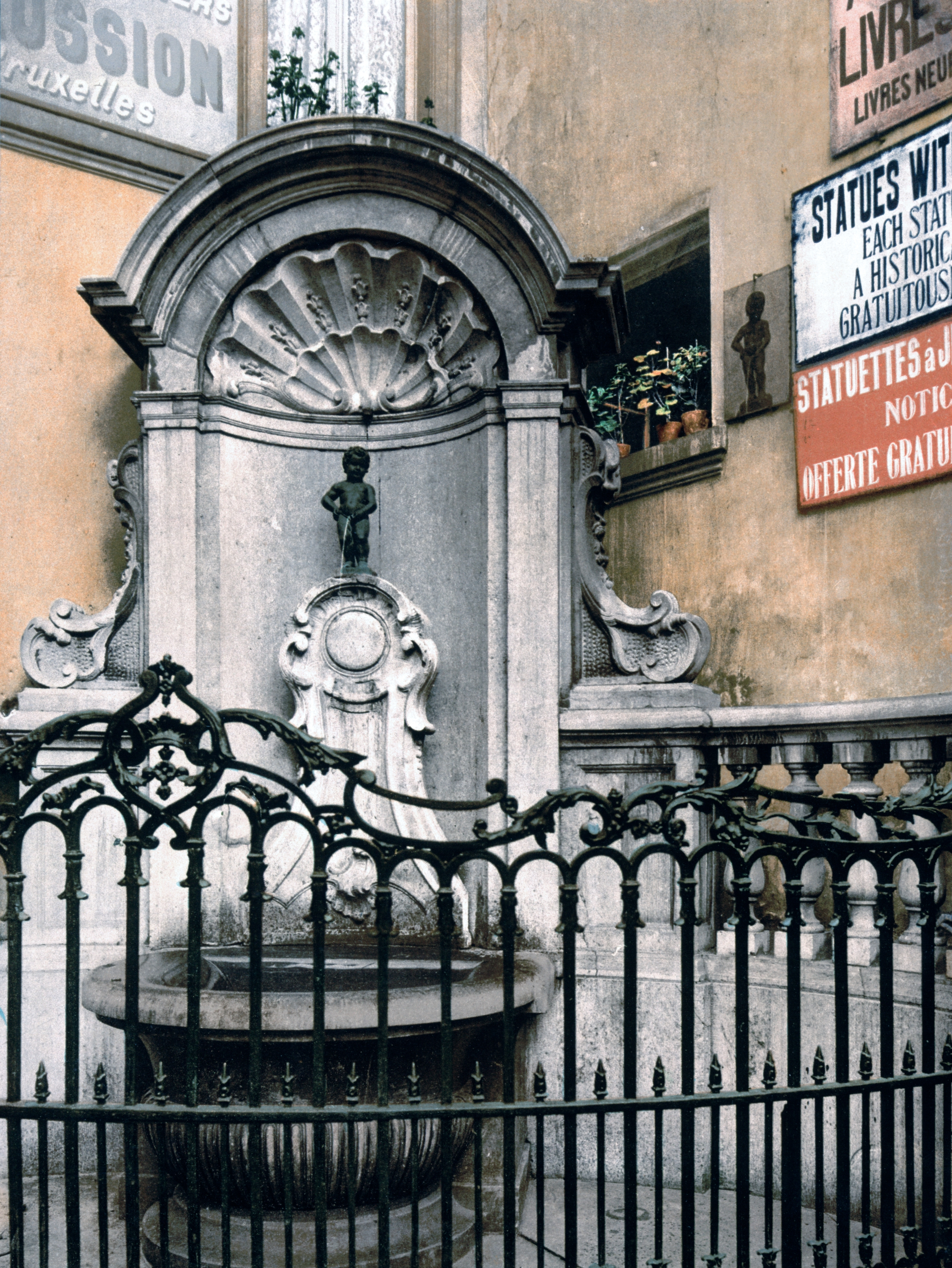 Brussels - Manneke Pis